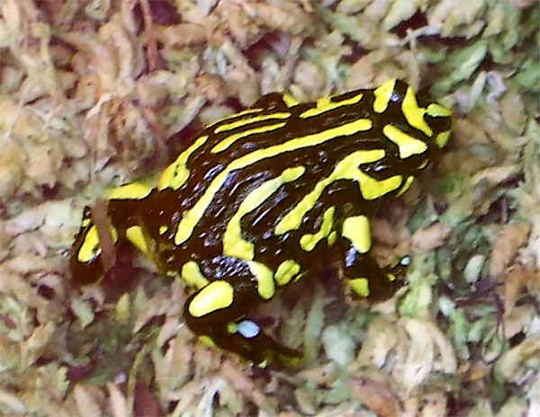 A captive Corroboree Frog, (Pseudophryne corroborree) at Taronga Zoo in Sydney. Edited Image:Corroboree.jpg to reduce noise, sharpen, and color correct.